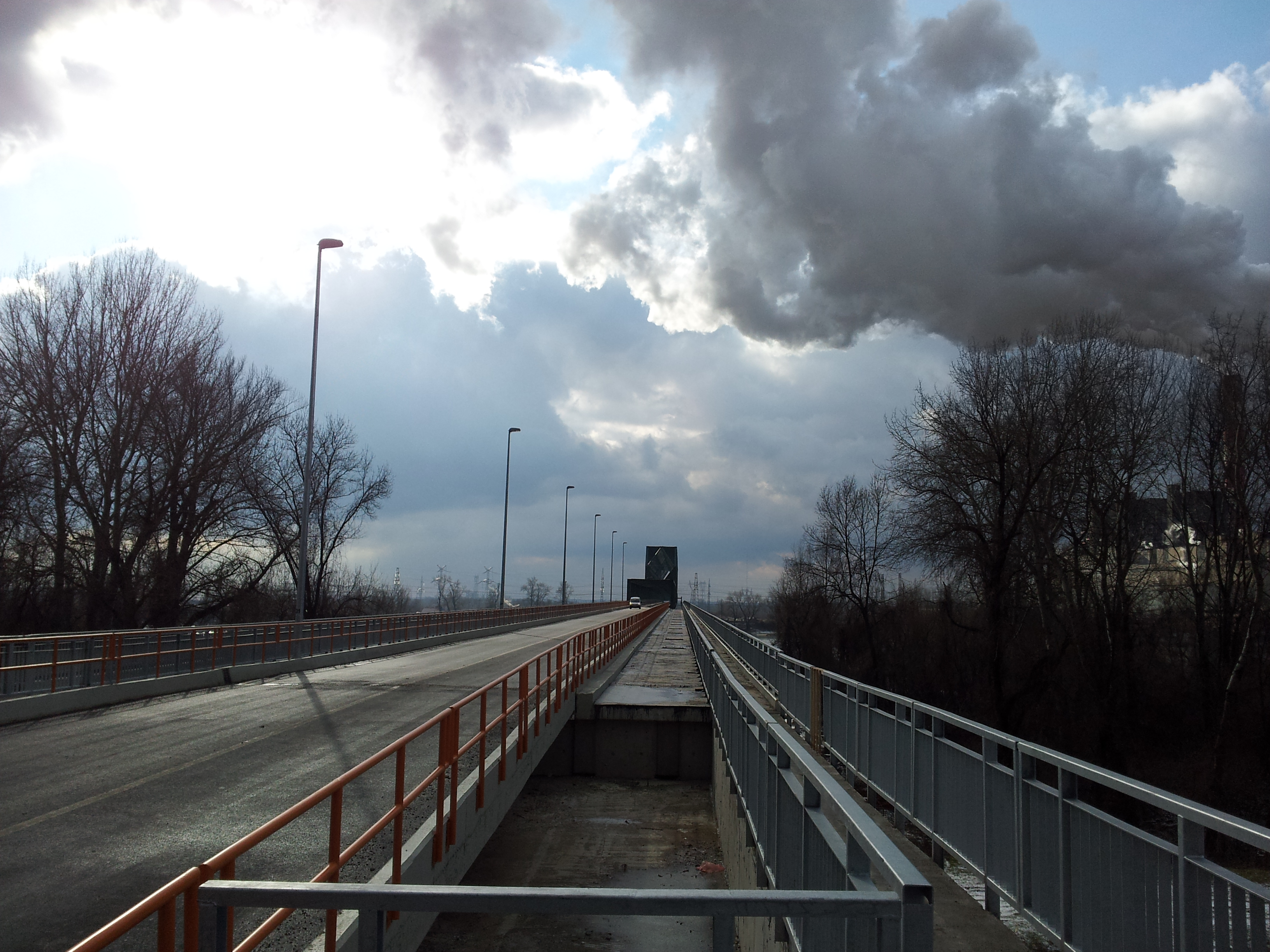 Bridge Obrenovac - Surčin in Progar.